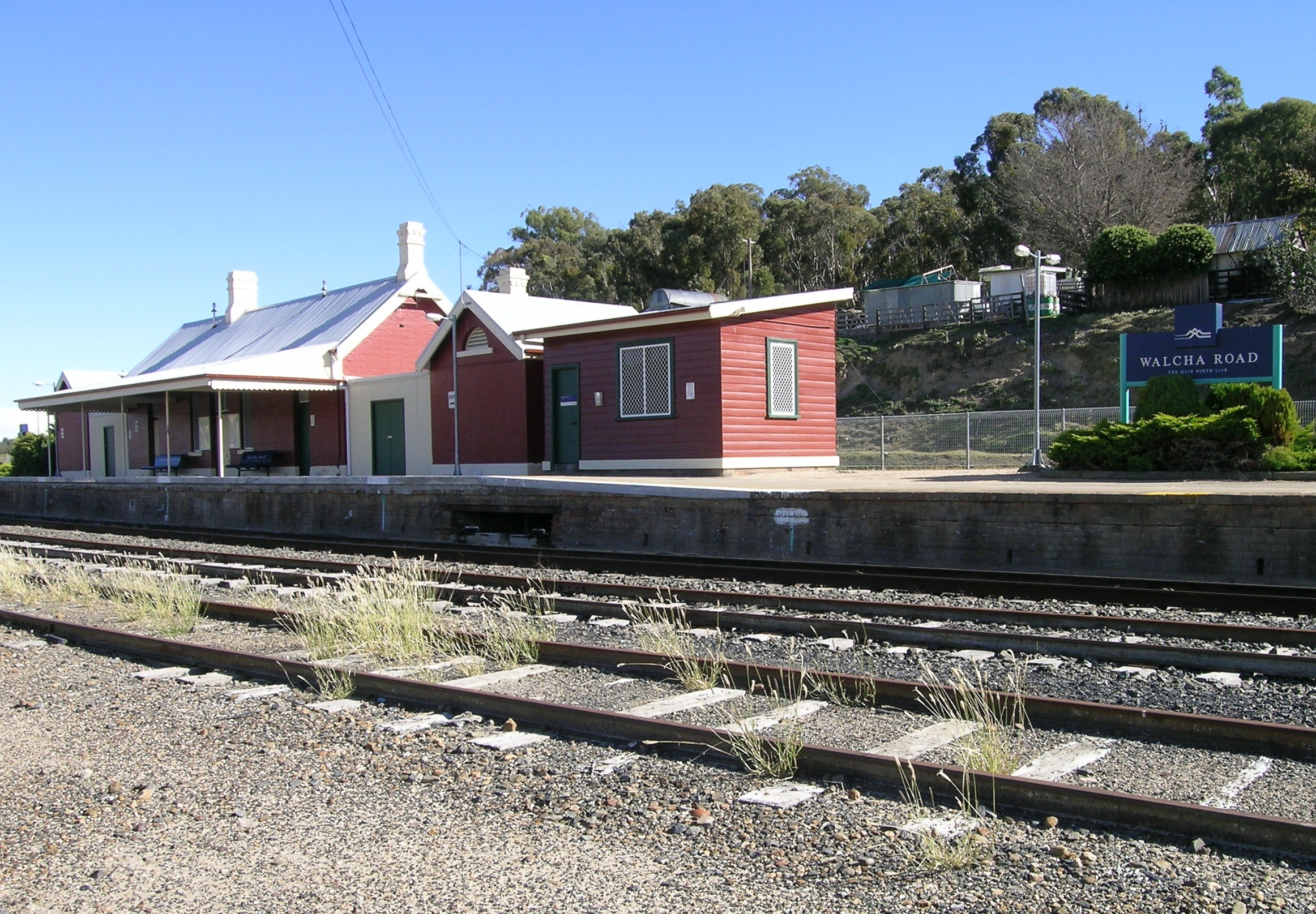 Walcha Road railway station